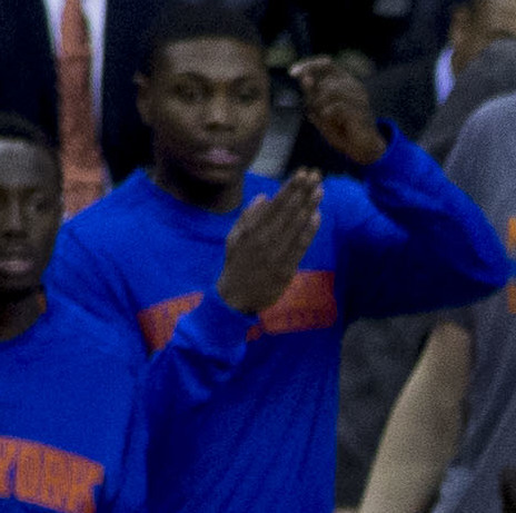 Knicks at Wizards 10/31/15